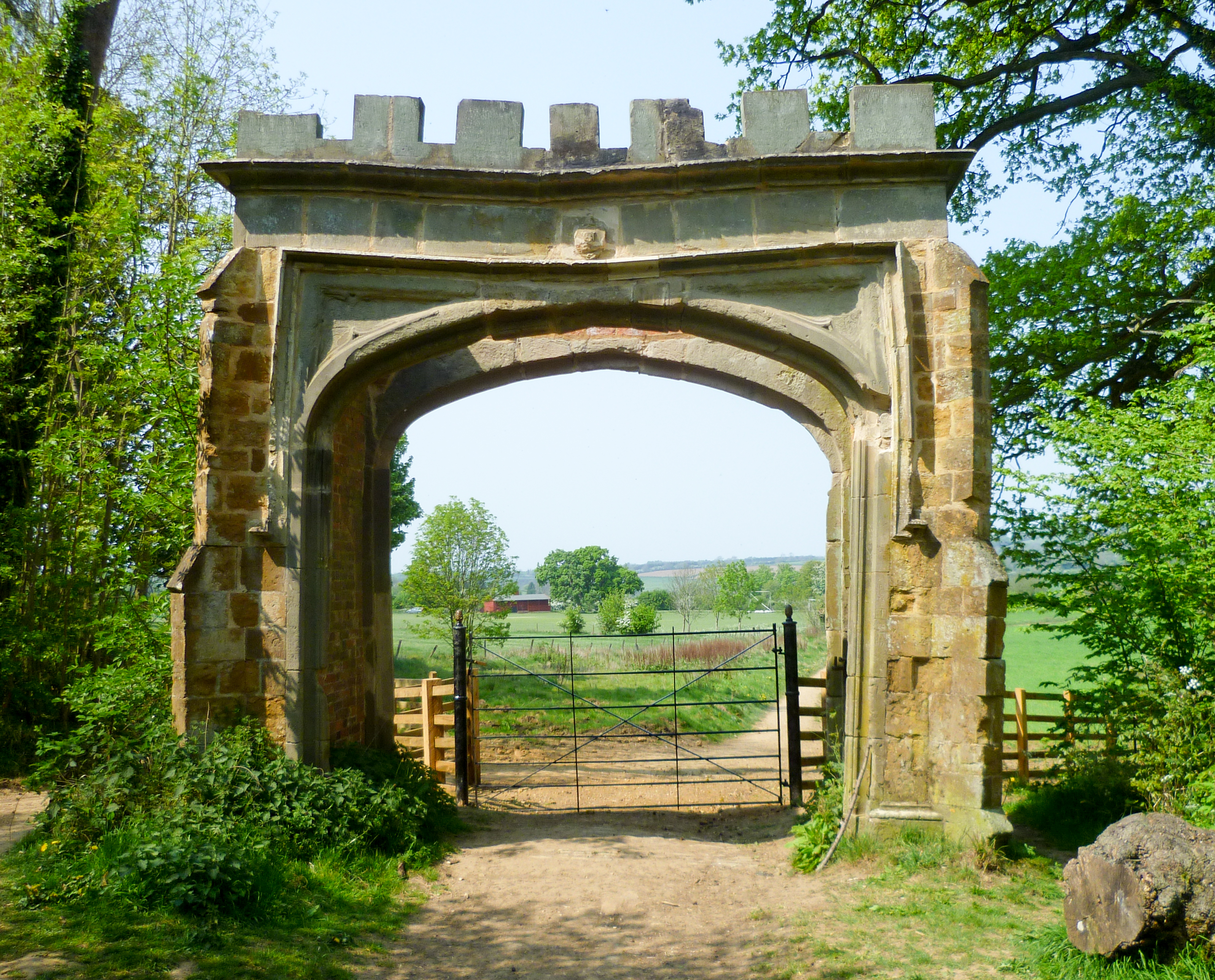 Arch Gate, Badby Woods, Badby, England. Dating from the late 18th or early 19th century. Originally a lodge gateway.